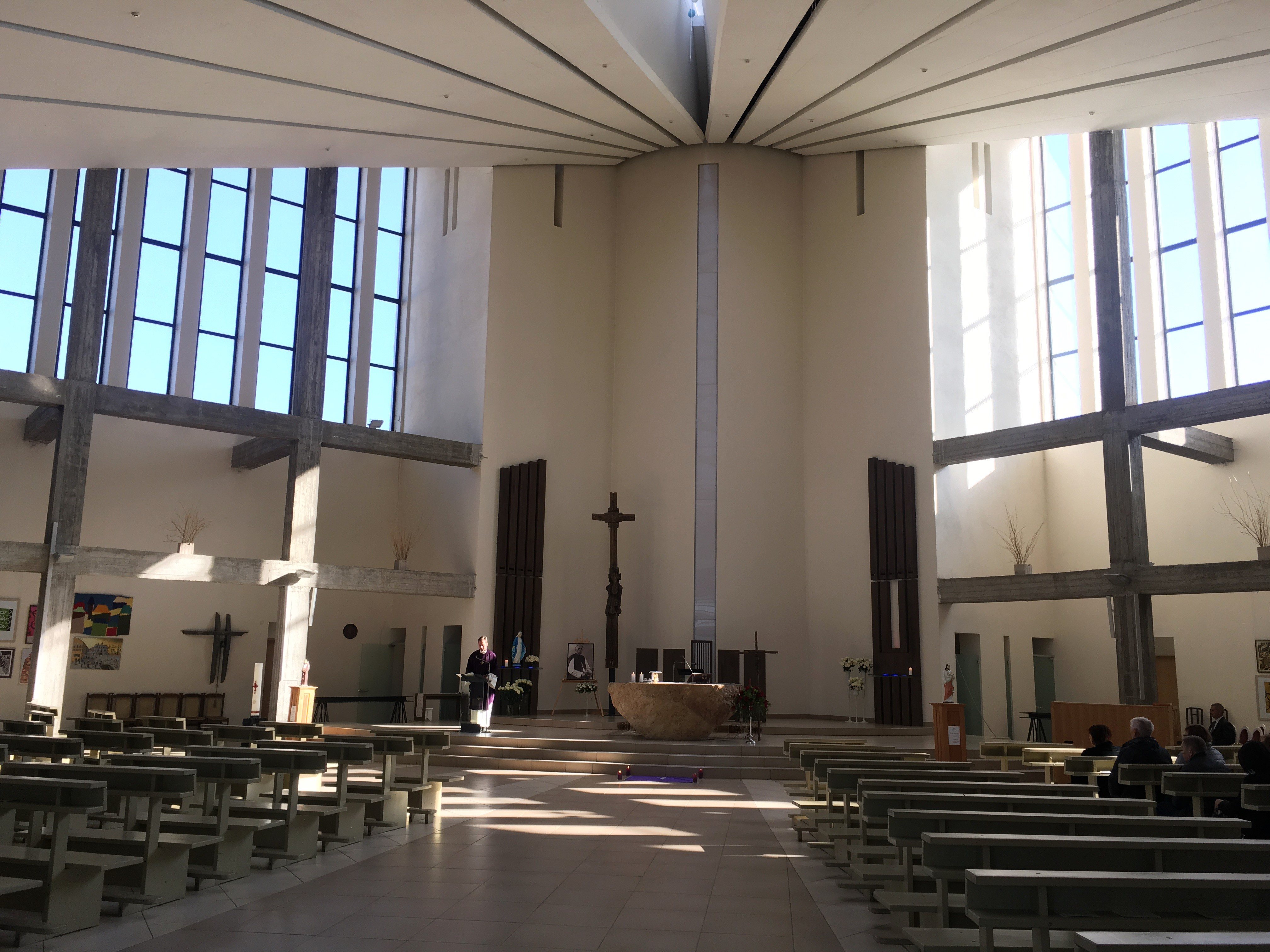 Interior of the church of Saint Francis of Assisi in Mažeikiai